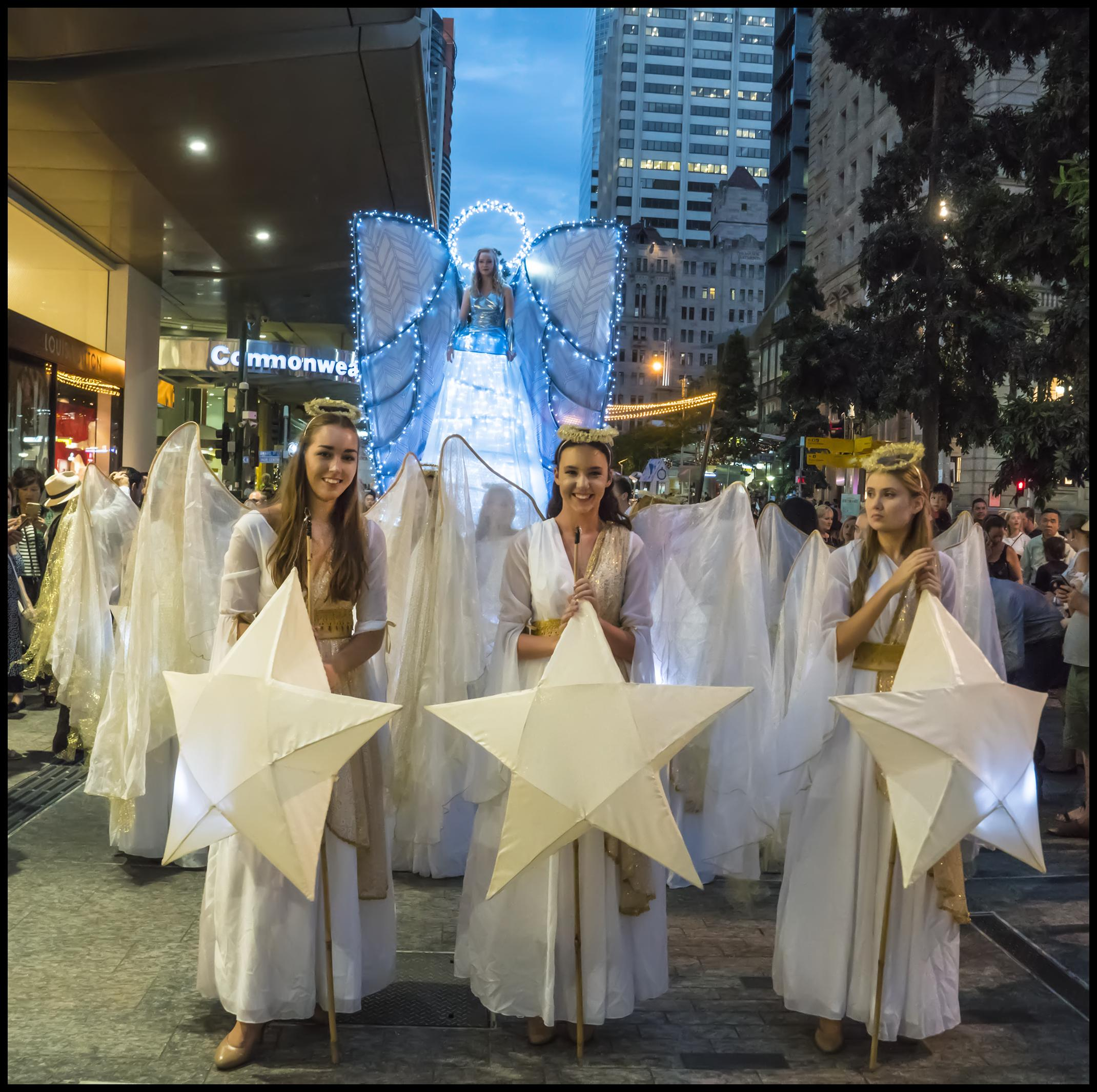 Brisbane Queen St Mall Christmas Parade